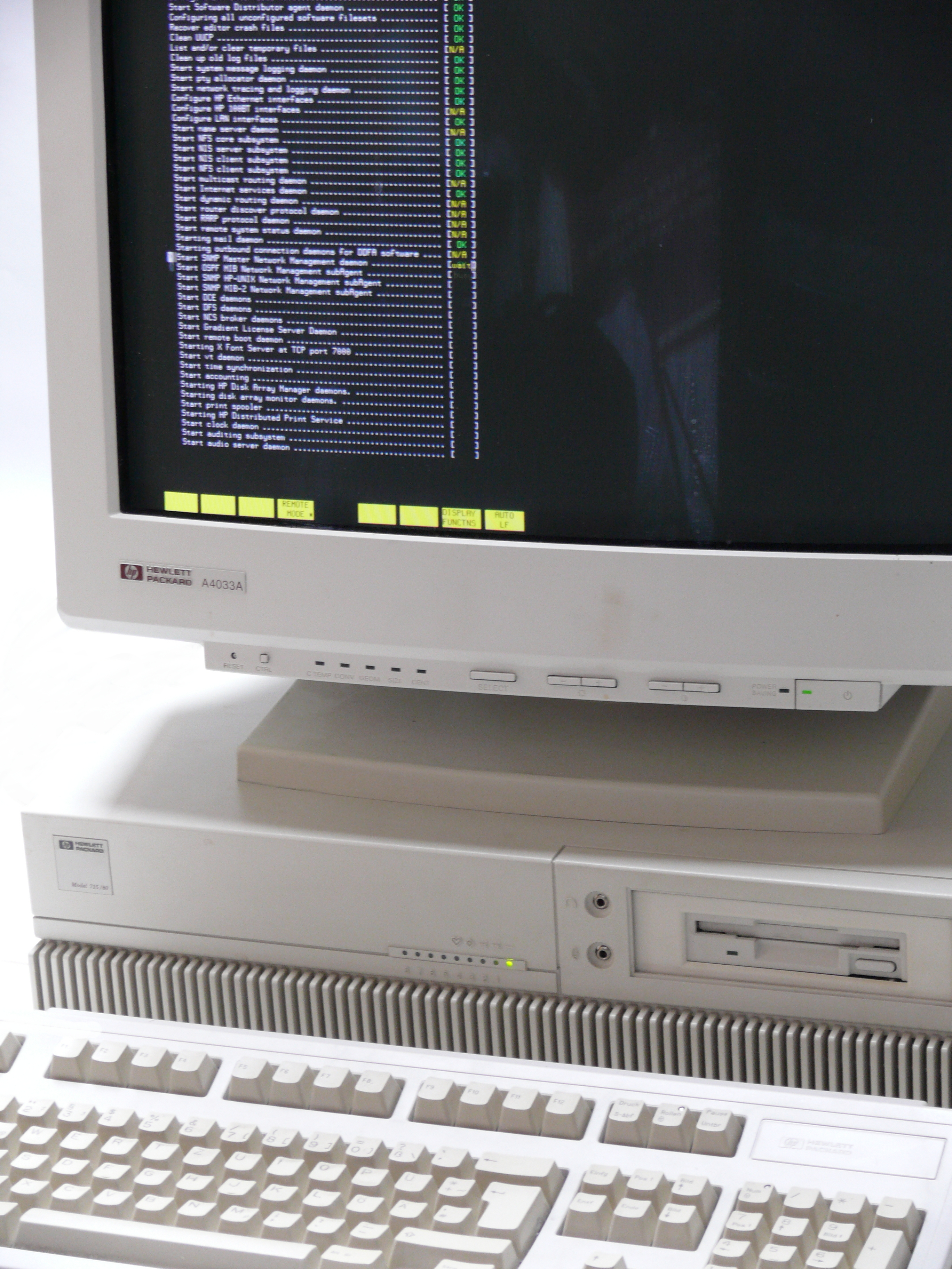 Hewlett-Packard HP9000 Model 715 UNIX Workstation (Mirage), HP 715/100, PA-RISC 7100LC CPU - 32 Bit - 100 MHz, 256 MByte RAM, 4 GByte SCSI Disk Drive, SCSI CDROM-Drive, 3,5 " Floppy Disk Drive, 16 Bit Audio - Stereo, PS2 Keyboard and Mouse, HIL, EISA High Res Graphics Adapter - 1280x1024 pixel resolution - 8 Bit, Operating System HP-UX 10.20, HP A4033A 20" CRT color display, booting HP-UX